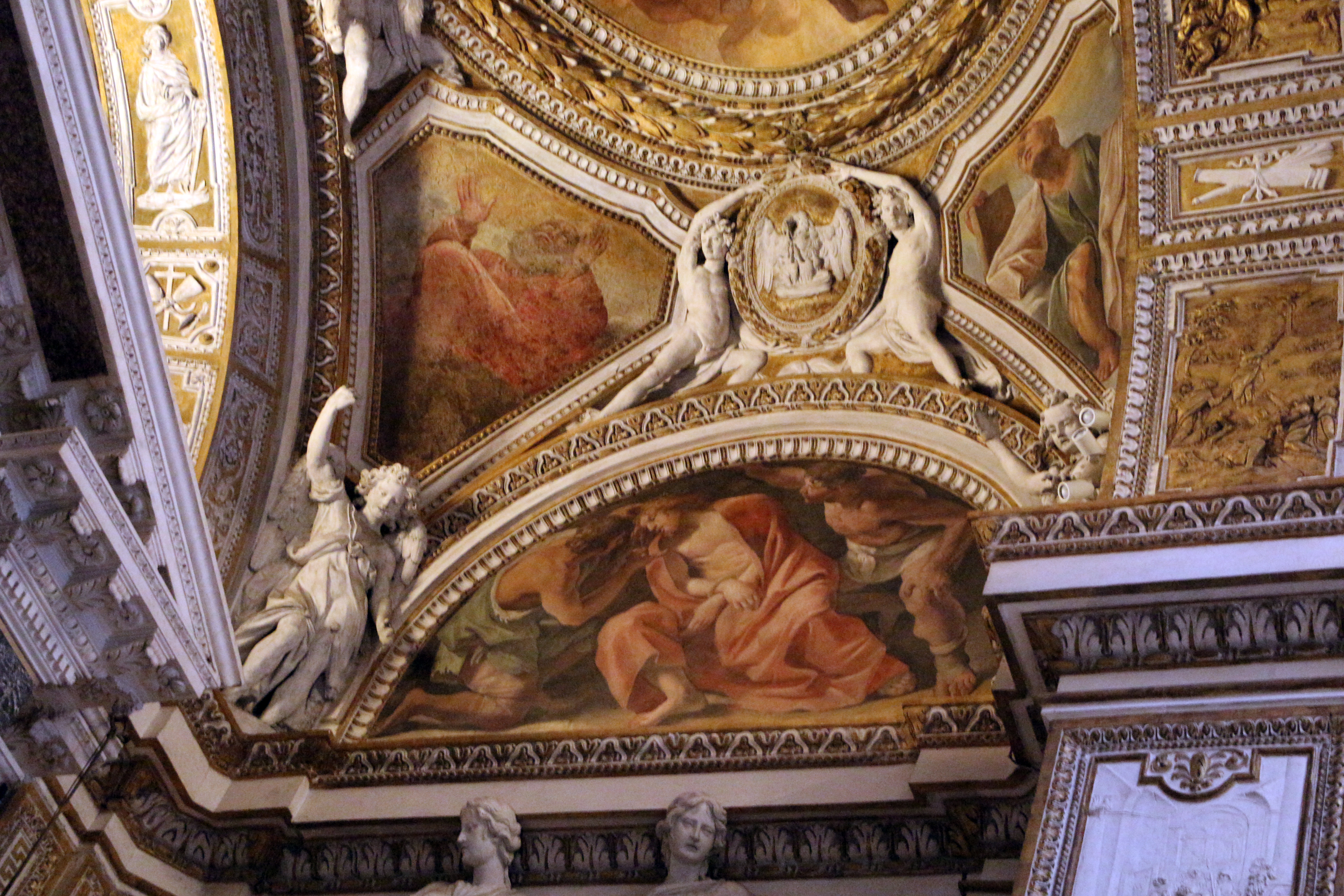 San Giovanni dei Fiorentini (Rome) - Interior